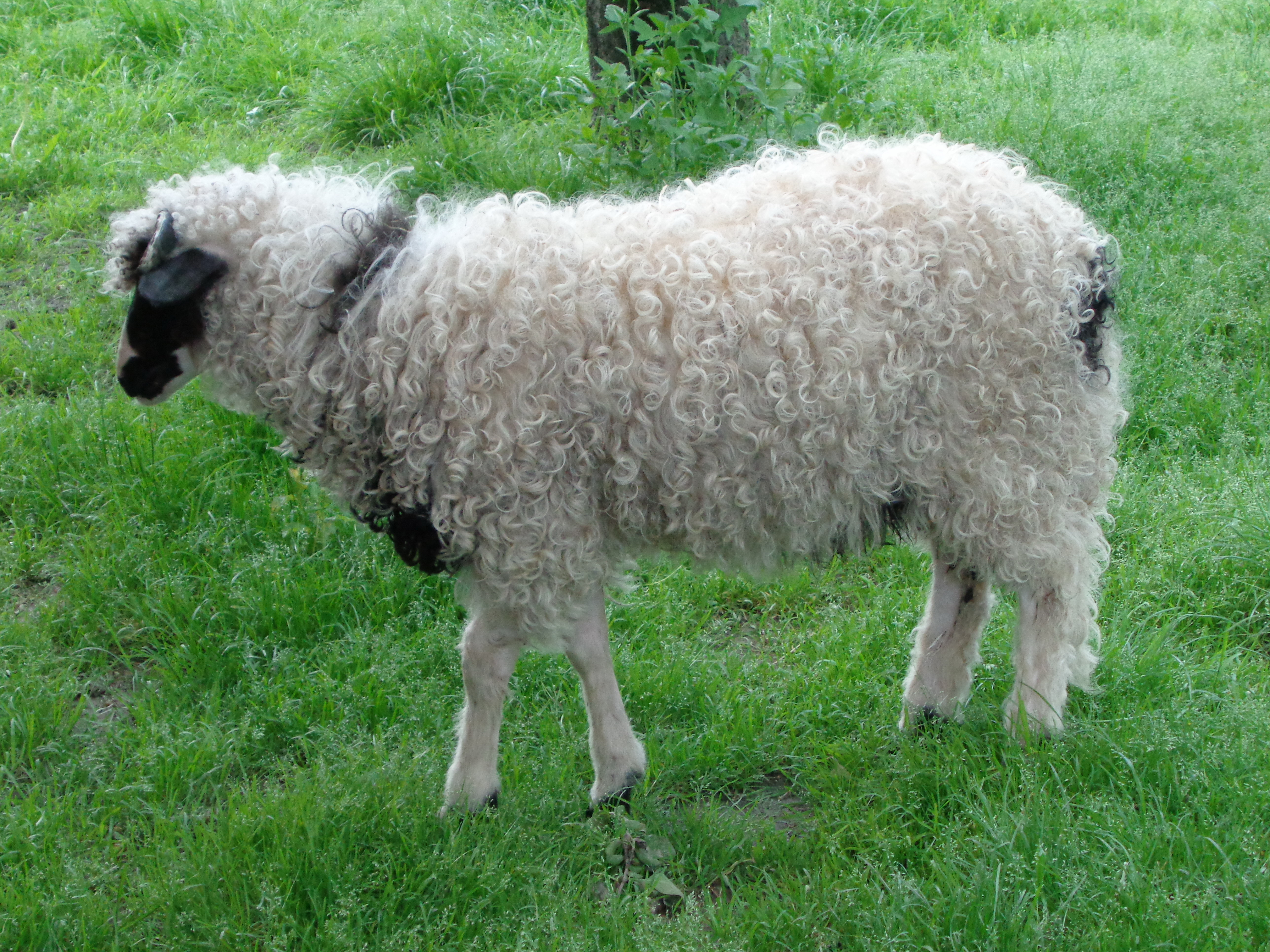 Lička pramenka (Pramenka of Lika region, Lika pramenka sheep = Lika Curly Sheep), sheep breed of Lika, Croatia